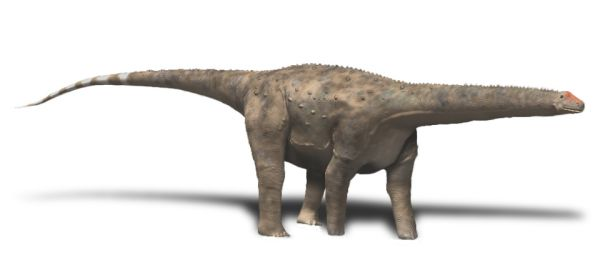 Hypselosaurus priscus, Late Cretaceous of Southern France. Digital.